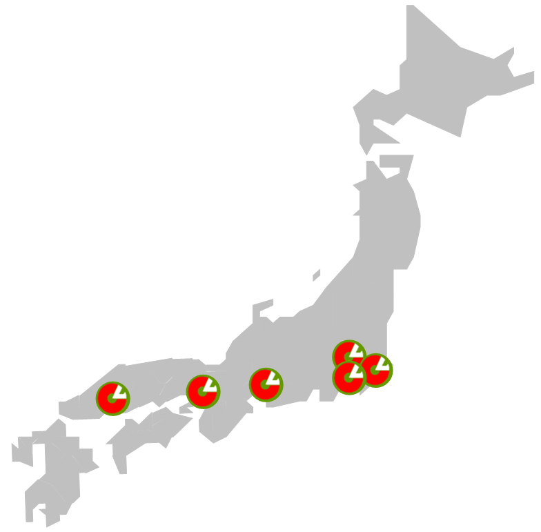 Baseball in Japan